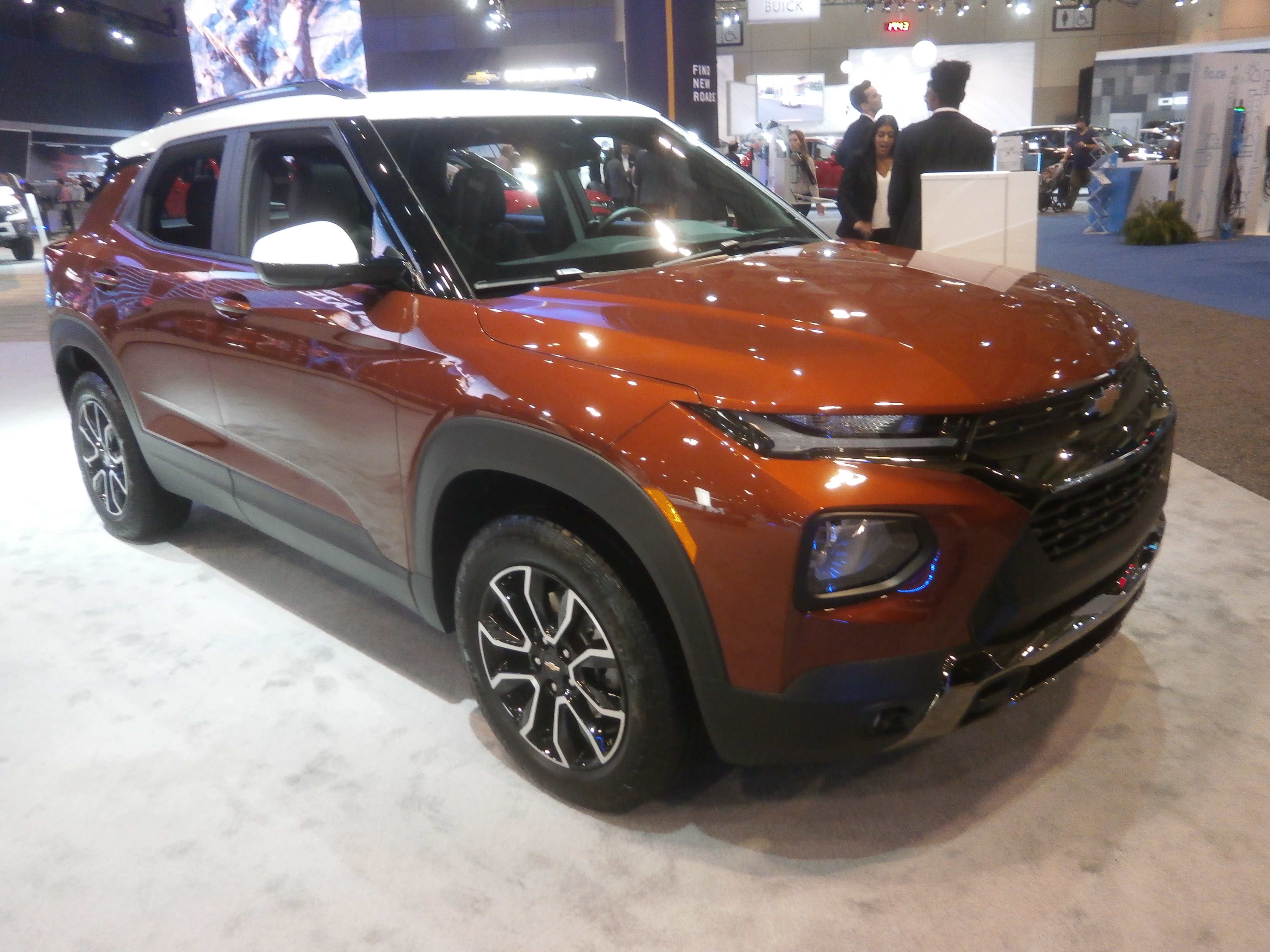 2021 Chevrolet Trailblazer Activ photographed at the 2020 Canadian International Auto Show